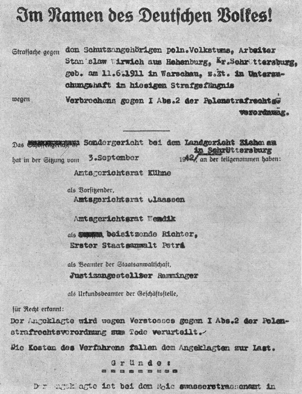 An example of nazi "justice" - death penalty for Polish citizen, Stanislas Wyrwich, issued by German court in 1942 in German-occupied Poland during II world war. Reason: "using force or violation against German citizen" (acording to paragraph 1, article 2 of nazi law concerning special criminal law for Poles anf Jews, issued on 4.XII.1941 - Verordnung uber die Strafrechtspflege gegen Polen und Juden in den eingeliederten Ostgebieten, vom 4, Dezember 1941. It is said above (bold letters): "In the name of German Nation !"